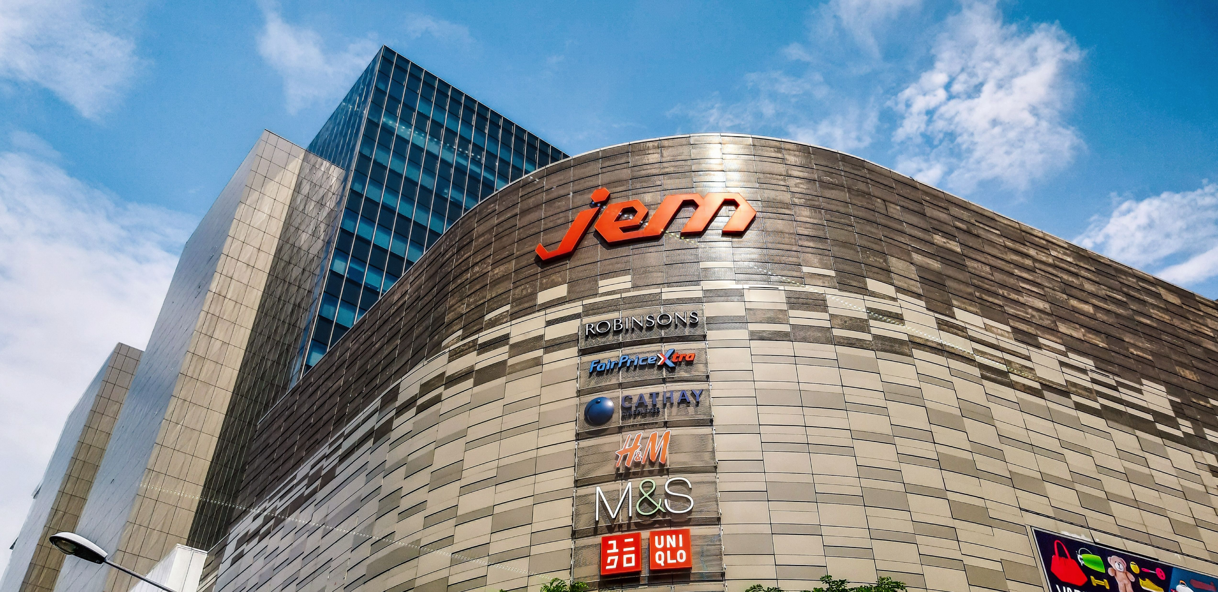 Photo of Jem Mall taken from Boon Lay Way